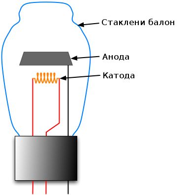 Diode vacuum tube, with part names in serbian language.